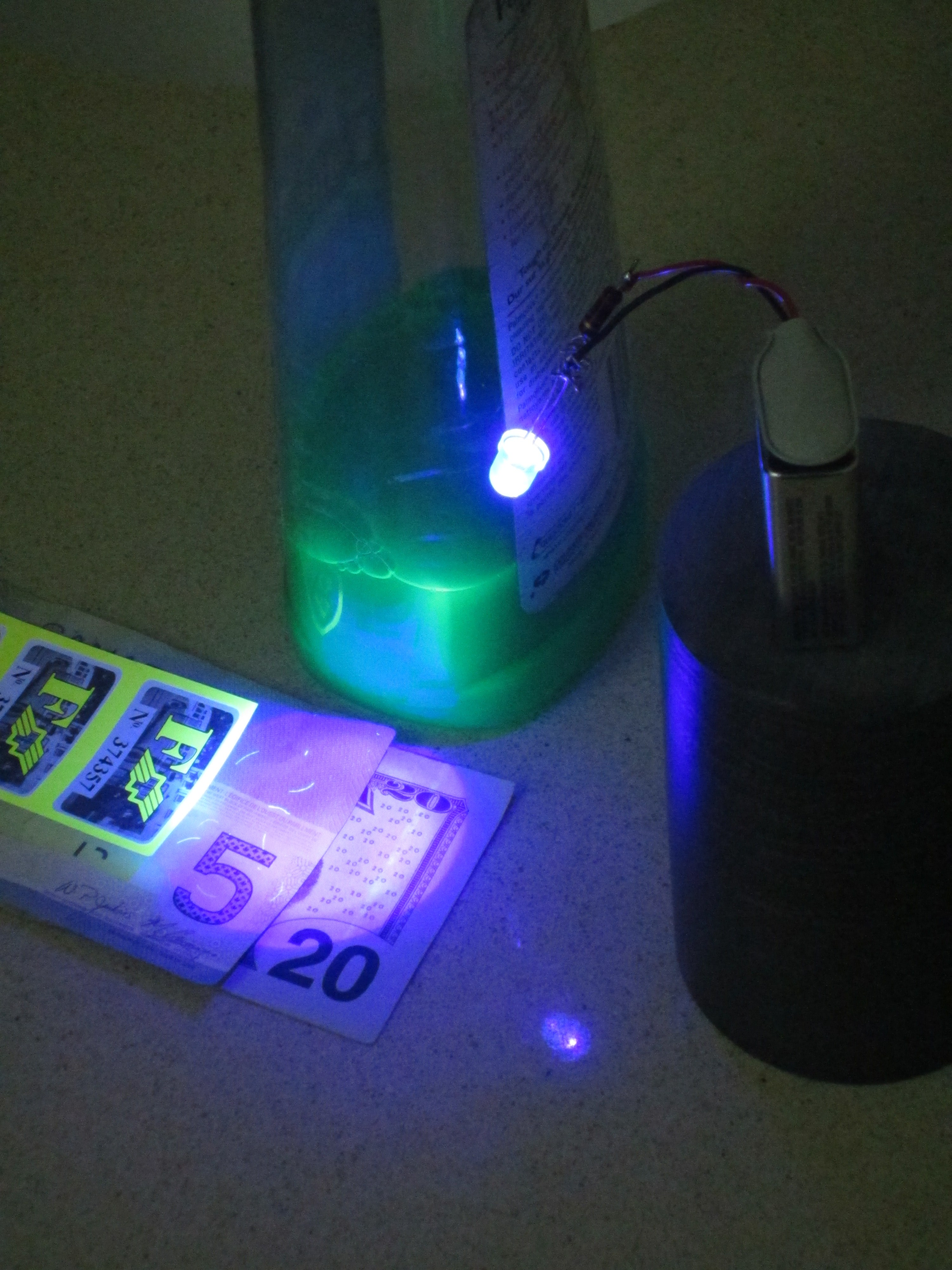 An ultraviolet light-emitting diode (UV LED) with peak emission at 380 nanometres. The UV shows the security threads in the Canadian $5 bill and the fluorescent stripe and "20" numerals printed on the back of the American $20. The bus tickets are printed on "dayglo" paper and fluoresce strongly in UV light. The dishwashing soap contains UV brighteners.